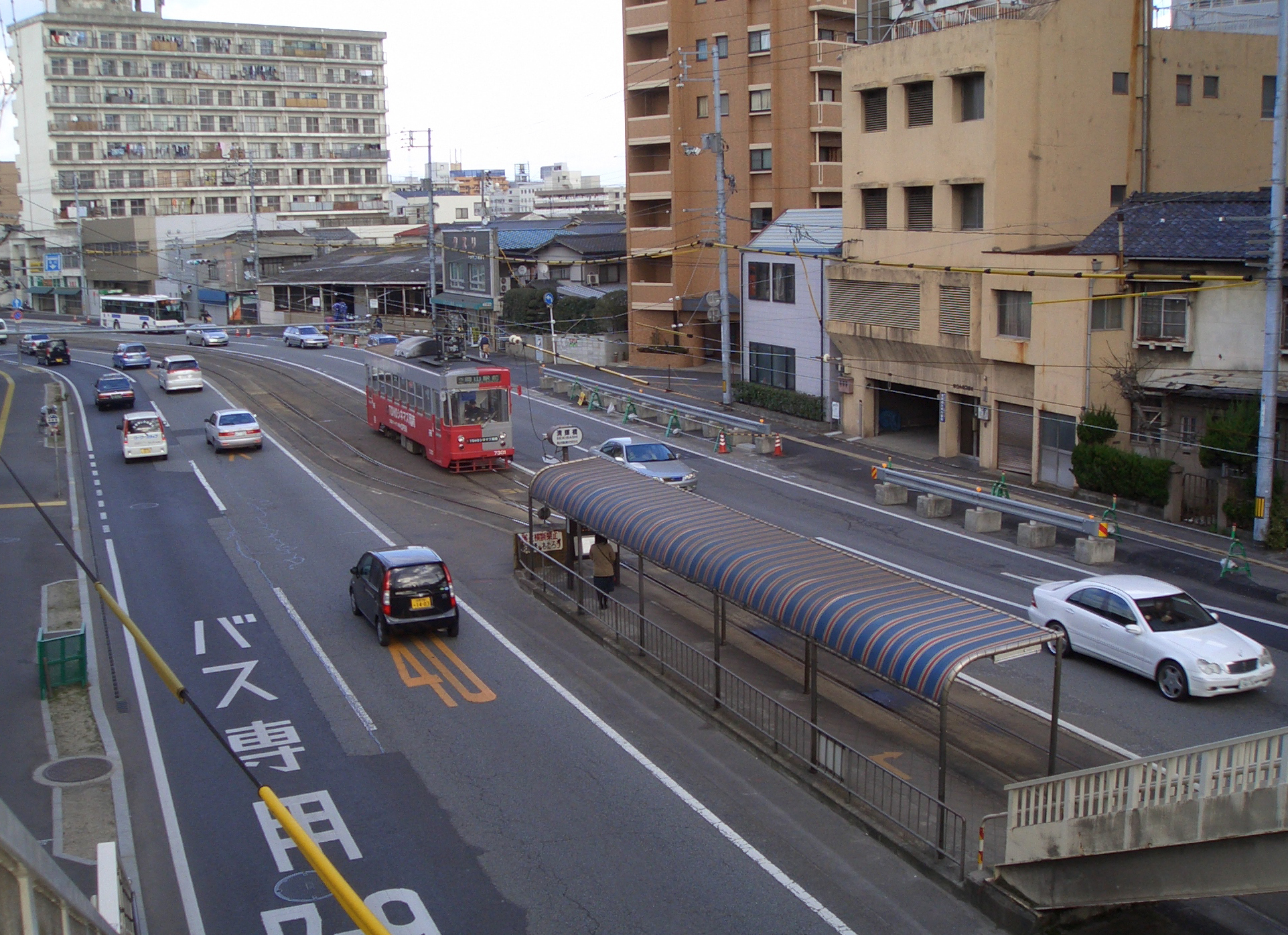 Seikibashi Station of Okayama Electric Tramway.